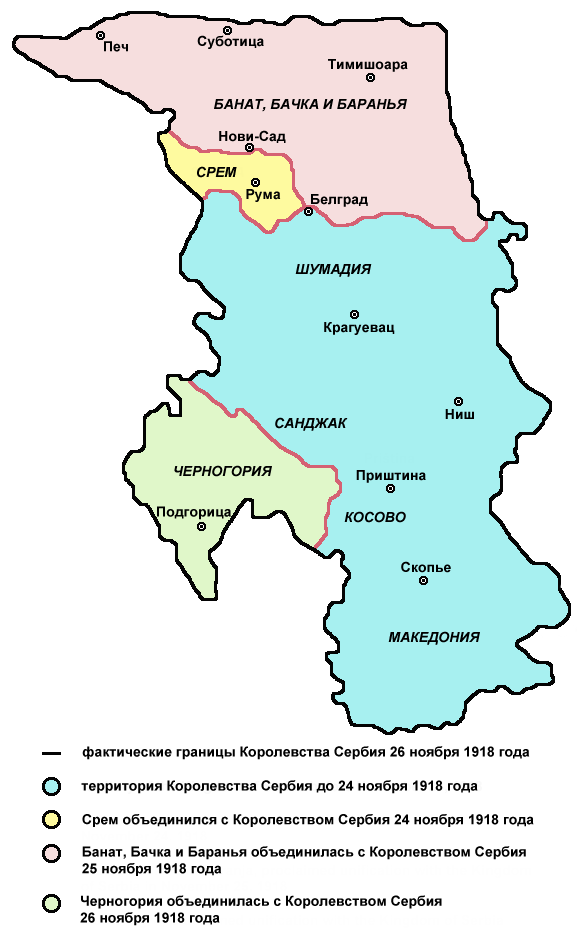 de facto borders of the Kingdom of Serbia in November 26, 1918, after unification with Syrmia (November 24), Banat, Bačka and Baranja (November 25) and Montenegro (November 26) - Russian language version